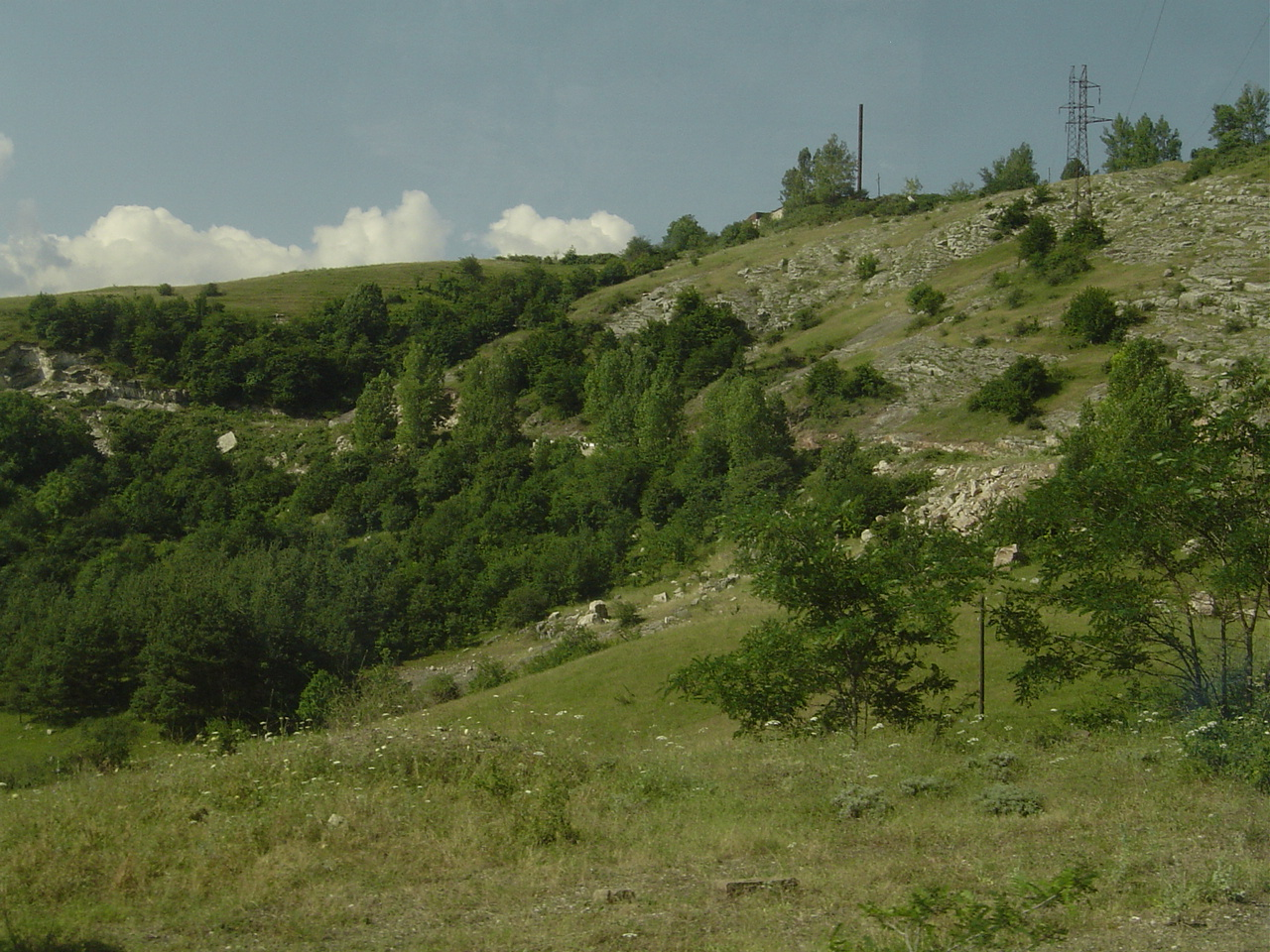 The road leading up to the town of Shusha, Nagorno-Karabakh. Photo taken by Marshal Bagramyan.